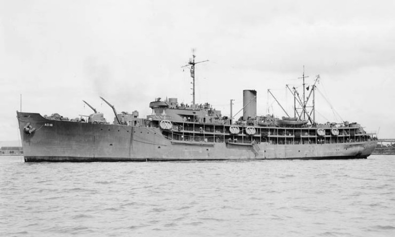 The U.S. Navy destroyer tender USS Cascade (AD-16) off the Mare Island Naval Shipyard, California (USA), on 27 March 1943, shortly after alterations at Navy Yard Mare Island to reduce topside weight.